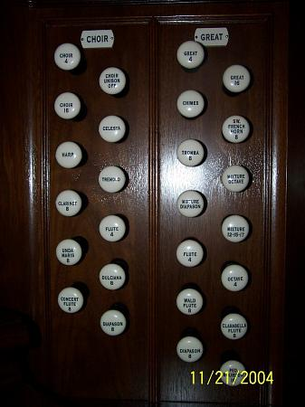 E. M. Skinner Organ Opus 481-A Choir and Great Stop List